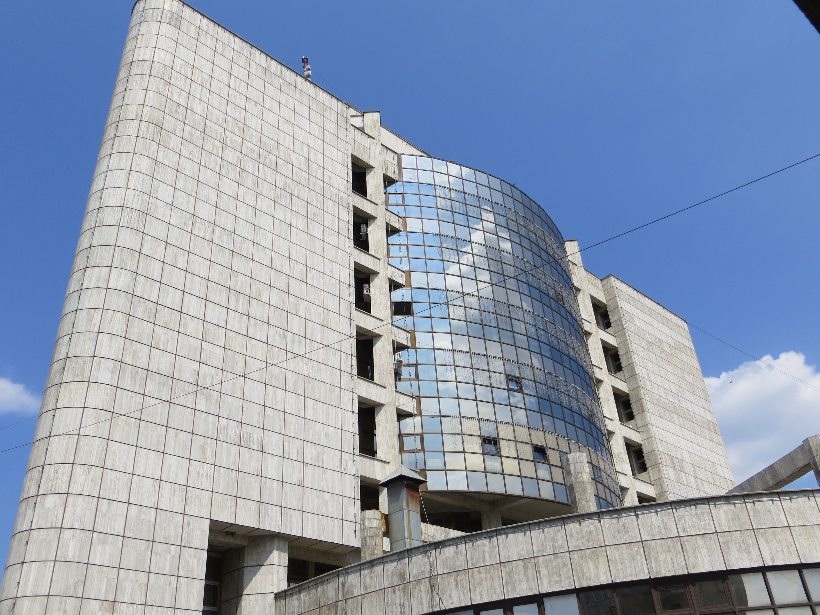 The Palace of Finance in Suceava.